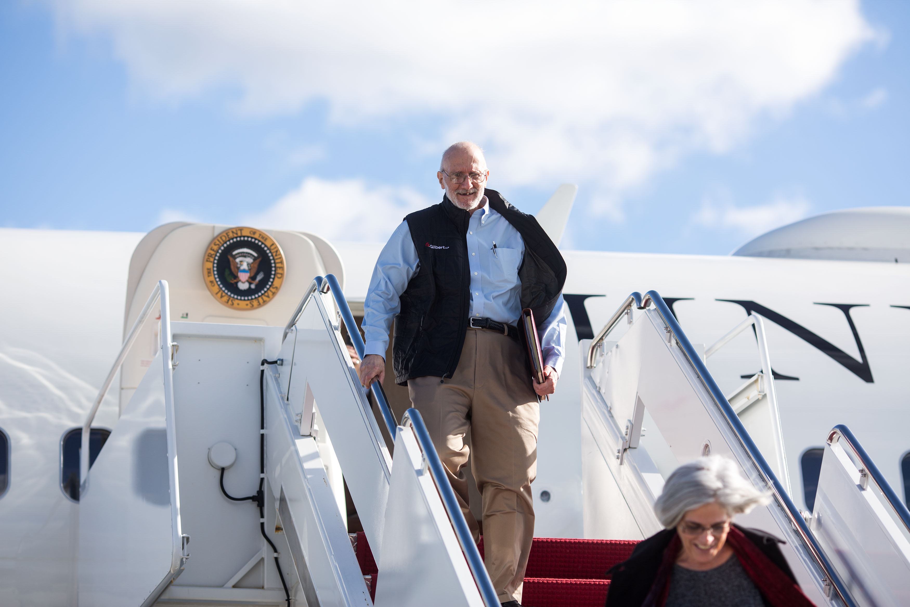 Alan Gross arrives at Joint Base Andrews, Md., Dec. 17, 2014. Gross spent 5 years as a prisoner in Cuba. (Official White House Photo by Lawrence Jackson) This official White House photograph is in the public domain from a copyright perspective, so while restrictions such as personality or privacy rights may apply, in general, manipulations are allowed.